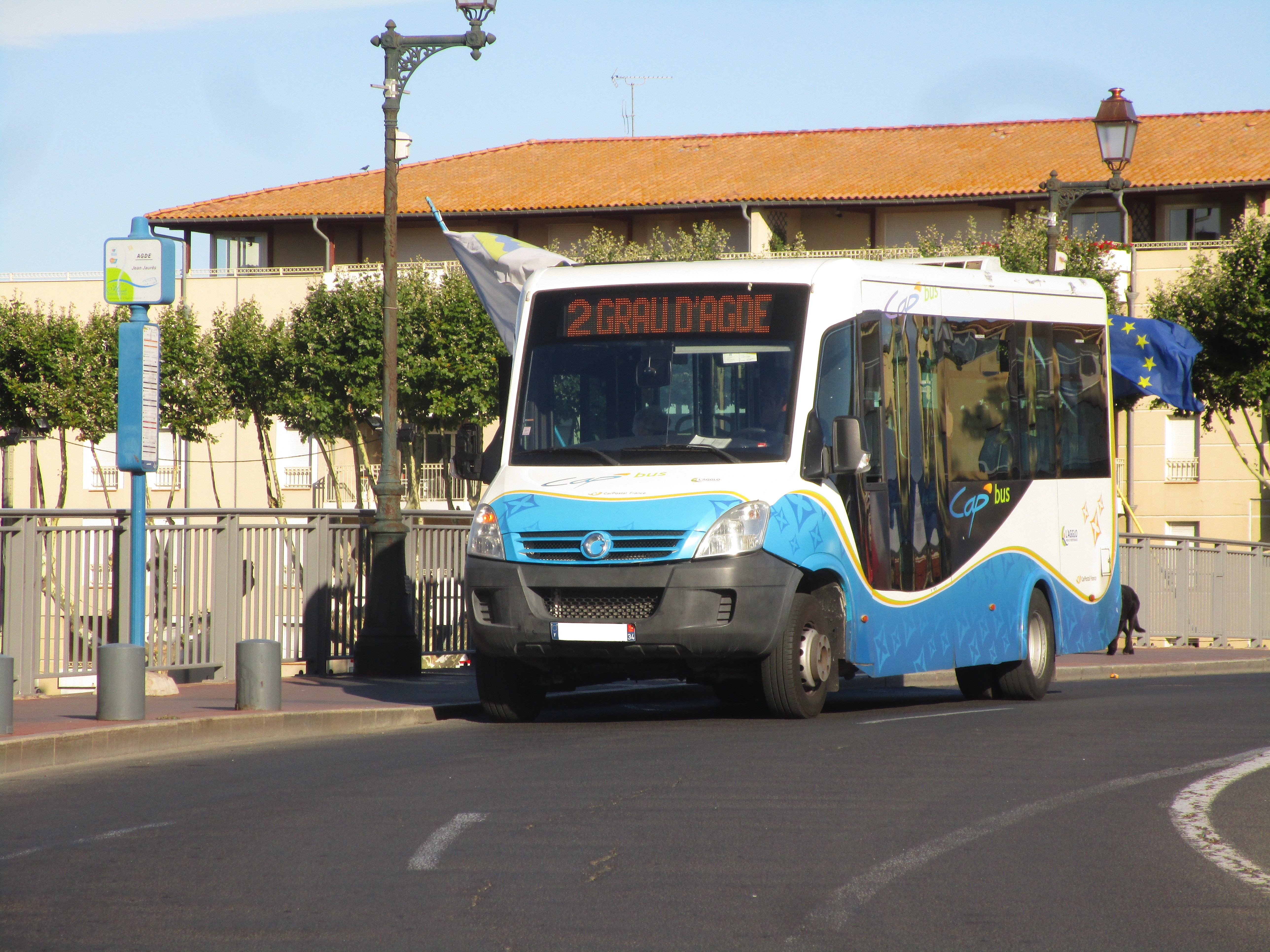 An Irisbus Vehixel Cityos of Cap’Bus, on the line 2 (Gare, Agde↔Mairie du Grau, Grau d’Agde), at the call Jean Jaurès — in the Agde, France — on July 1, 2017.